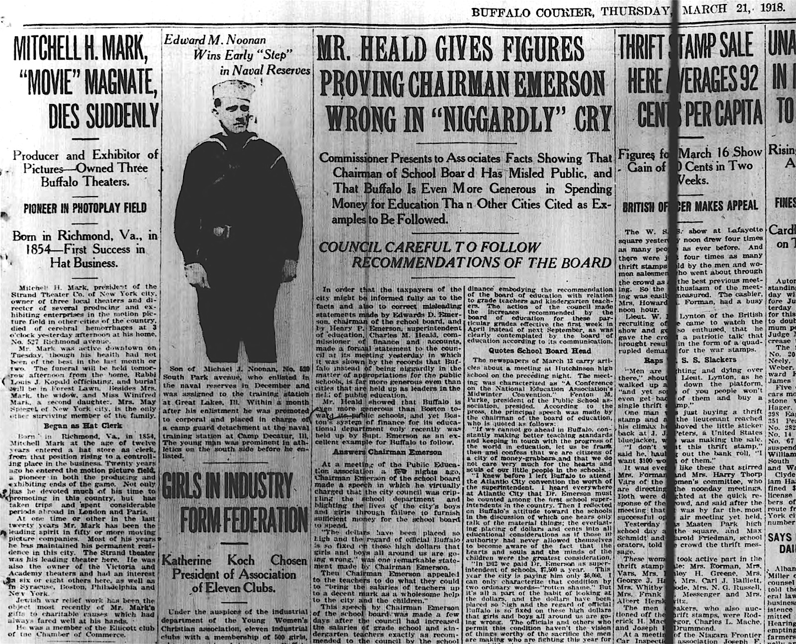 Portion of page 5 of the Buffalo Courier dated Thursday 1918-03-21, including the article, "Mitchell H. Mark, 'Movie' Magnate, Dies Suddenly"